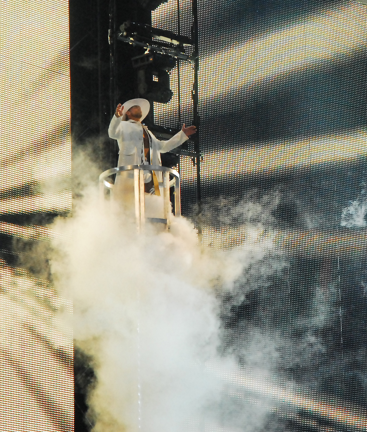 Shawn Michaels made a grand entrance. His match with The Undertaker was one of the best matches of the night.